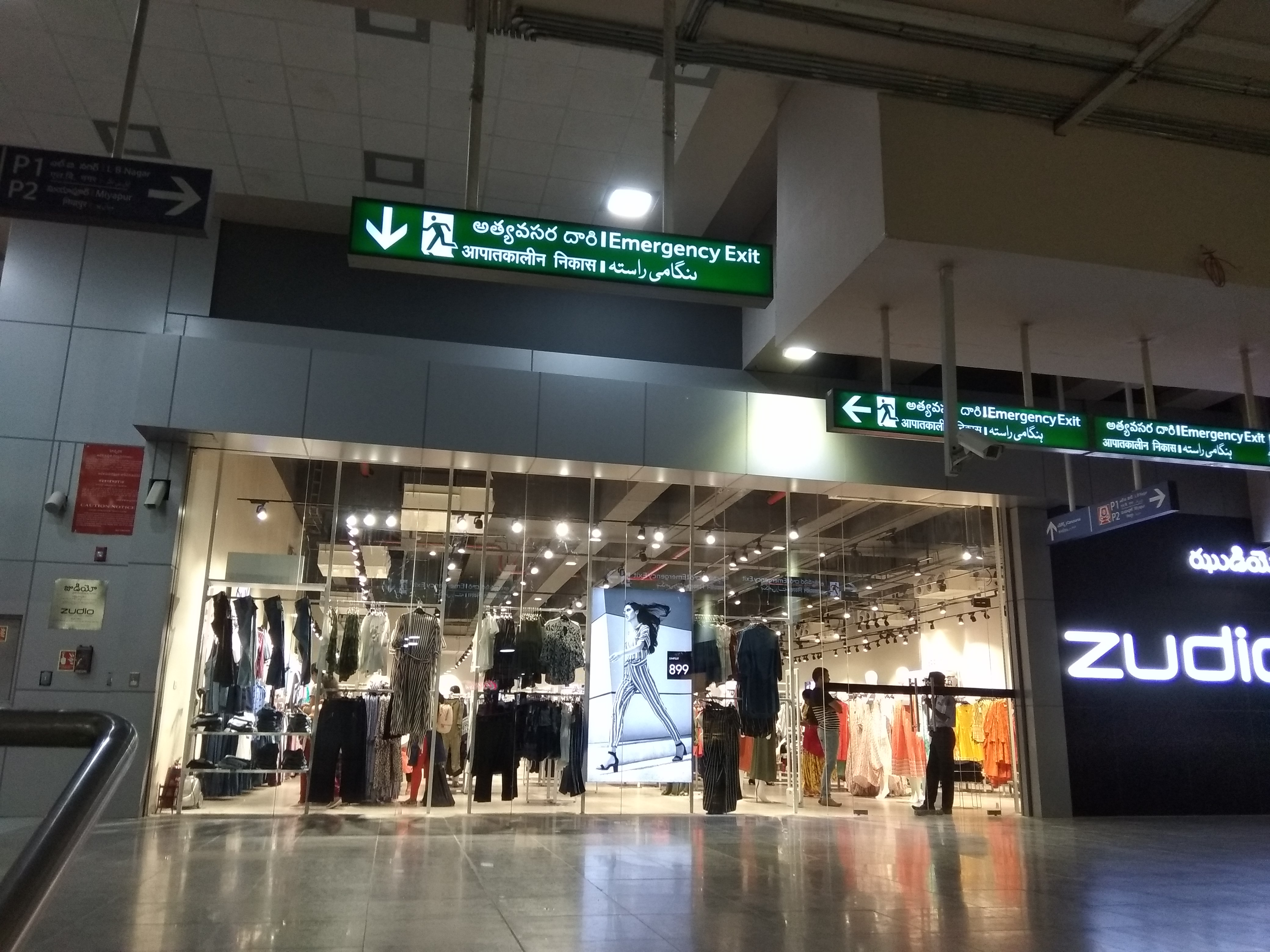 Ameerpetmetromall